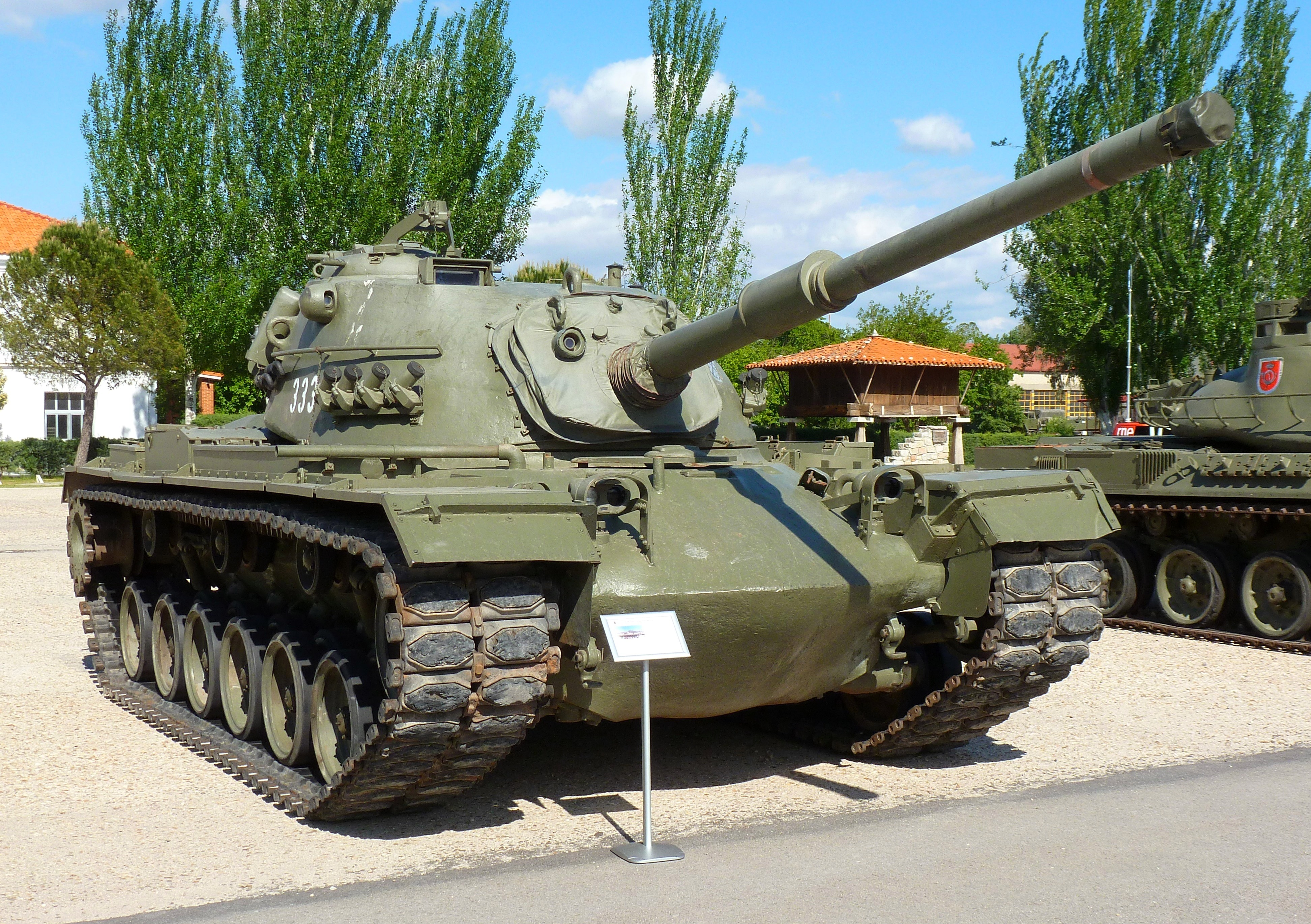 M-48A5E2 of the Spanish Army.